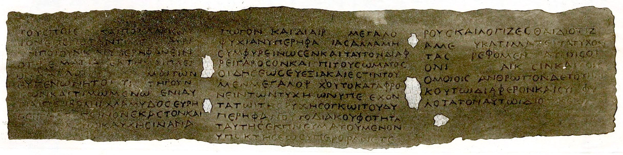 Image from book: Tesoro letterario di Ercolano, ossia, la reale officina dei papiri ercolanesi, Stamperia e cartiere del Fibreno, Naples, 1858.